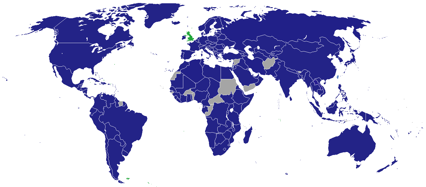 Map of diplomatic missions of the United Kingdom